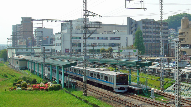 Overview of Tsurukawa Station on the Odakyu Odawara Line, with a 3000 series train departing on a service for Shinjuku